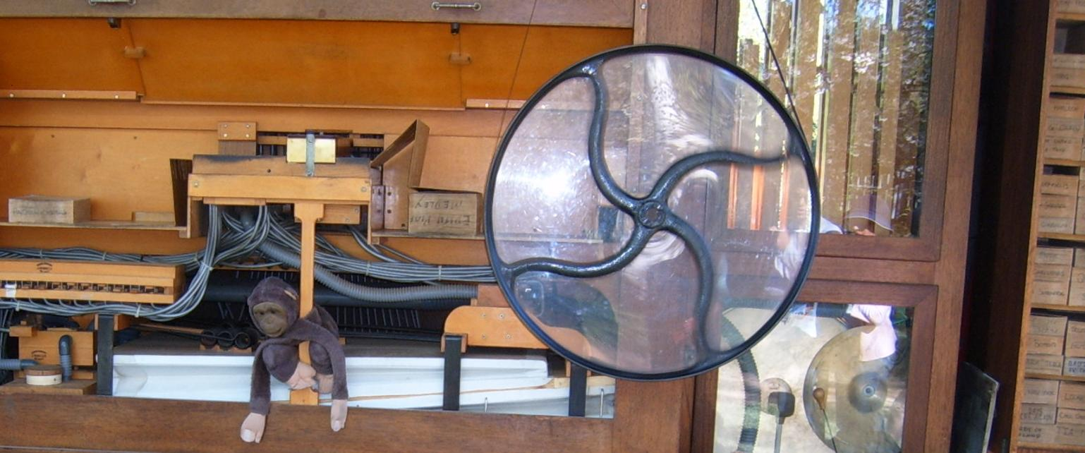 Book music mechanism and storage of "Australia Fair Grand Concert Street Organ", a Johnny Verbeeck style 73 key street organ. Also see image:thumb|left|Face of Australia Fair street organ. I took this picture in Canberra, Australia on 1 October 2006. Peter Ellis 16:49, 1 October 2006 (UTC)